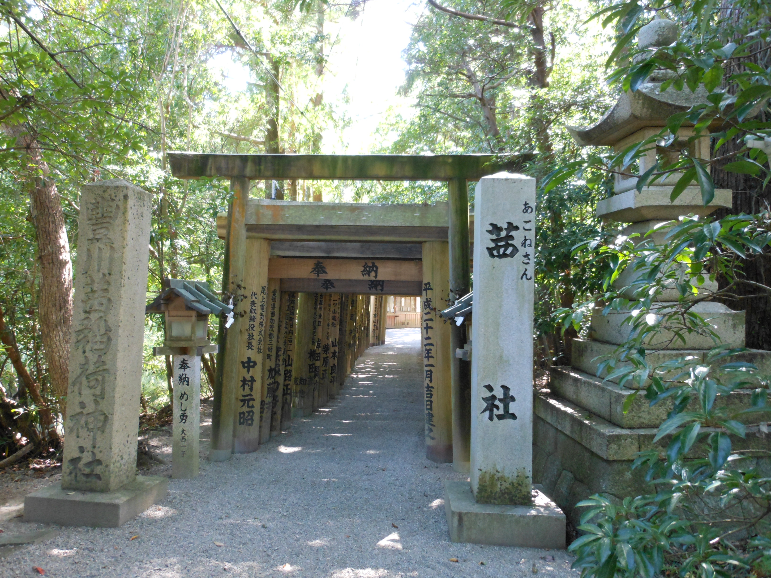 This is the Akone-yashiro, which is in Geku, Ise, Mie, Japan.